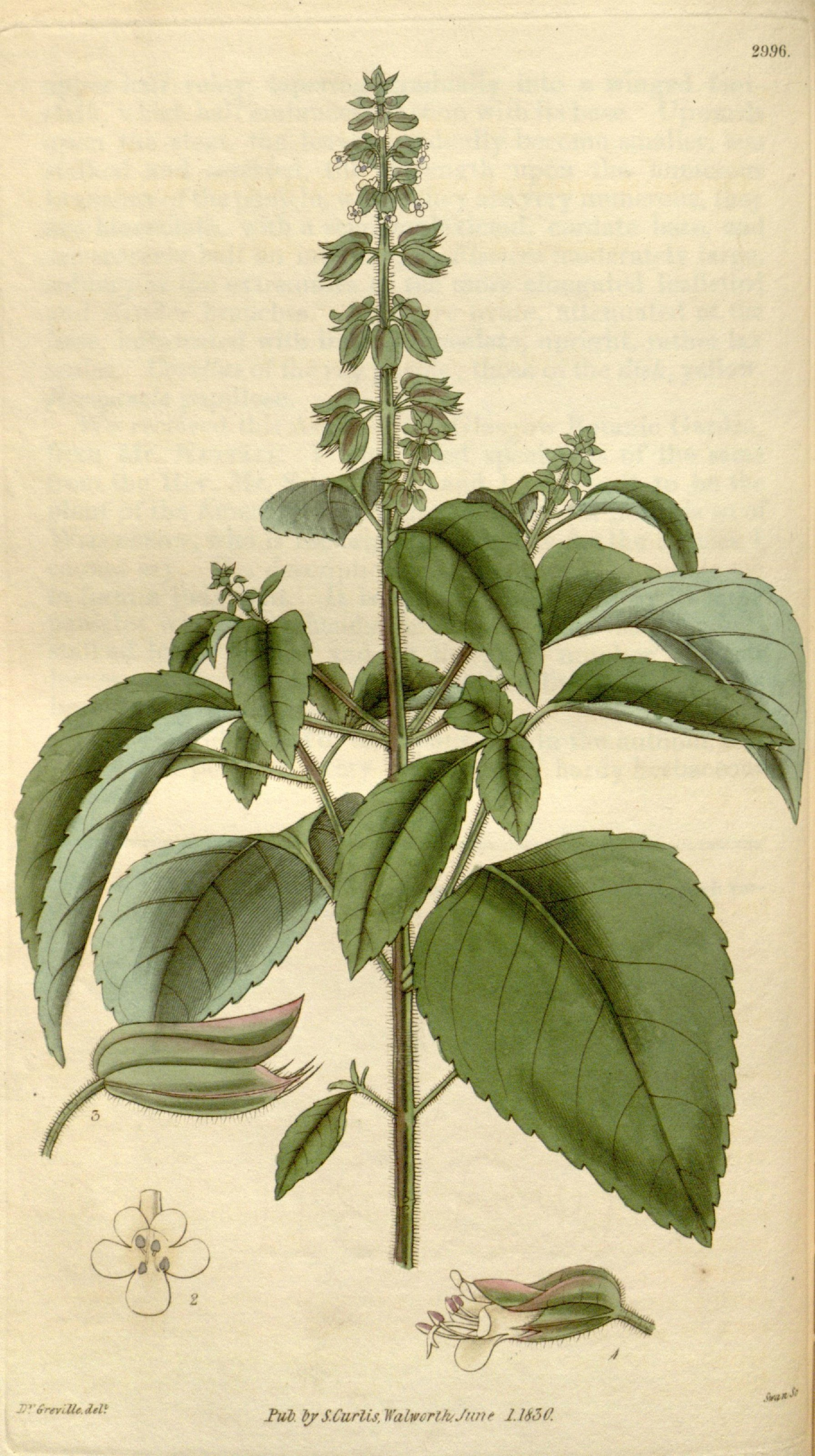 Listed in the magazine as Ocimum montanum, now known as Ocimum campechianum, which is a red link in the Ocimum species list. Richard Avery (talk) 09:39, 7 September 2015 (UTC)